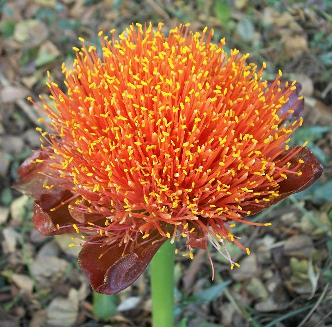 Flower of Scadoxus puniceus at Umdoni Bird Sanctuary, Amanzimtoti, South Africa.